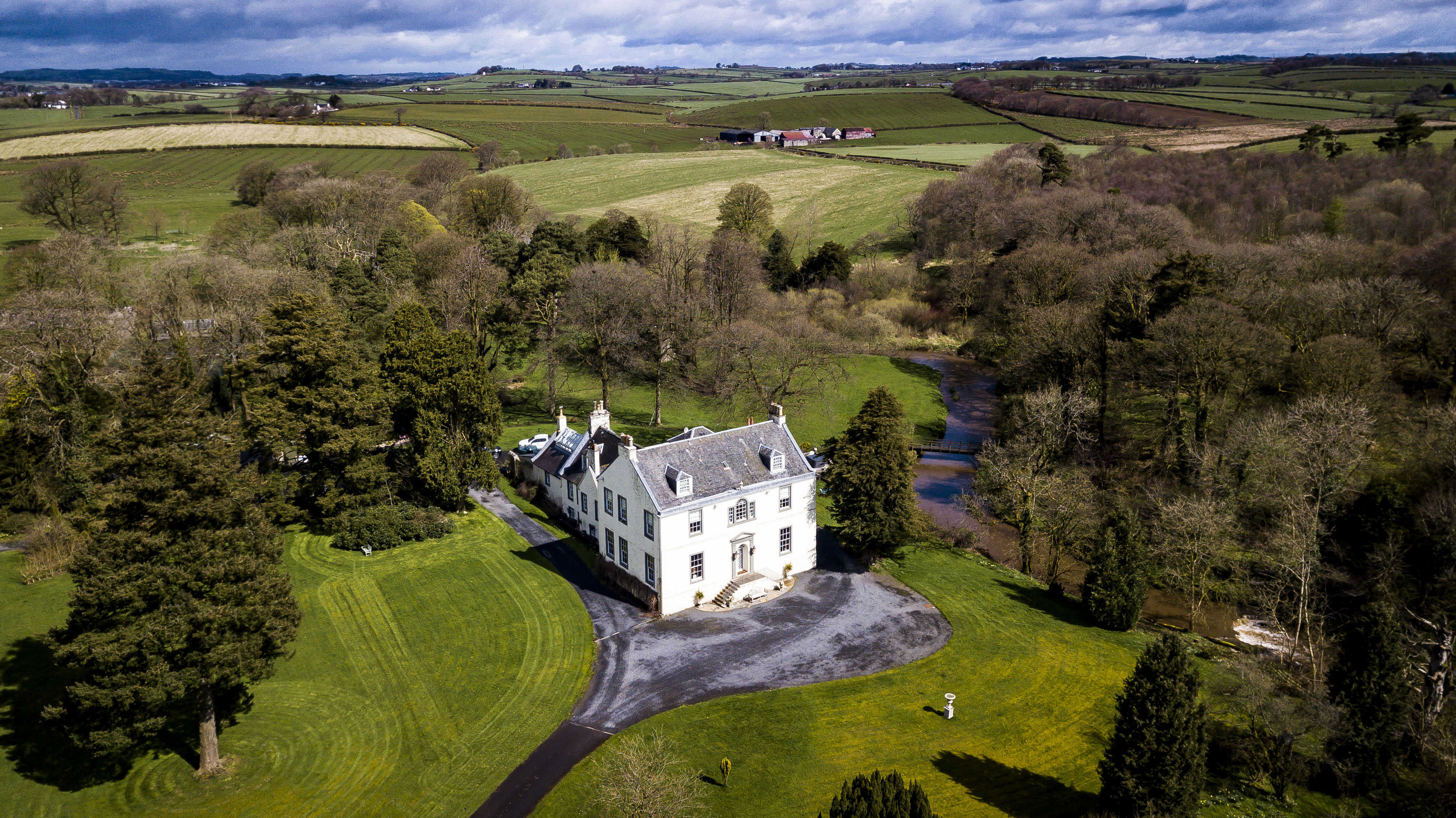 An aerial view of Kennox House looking North